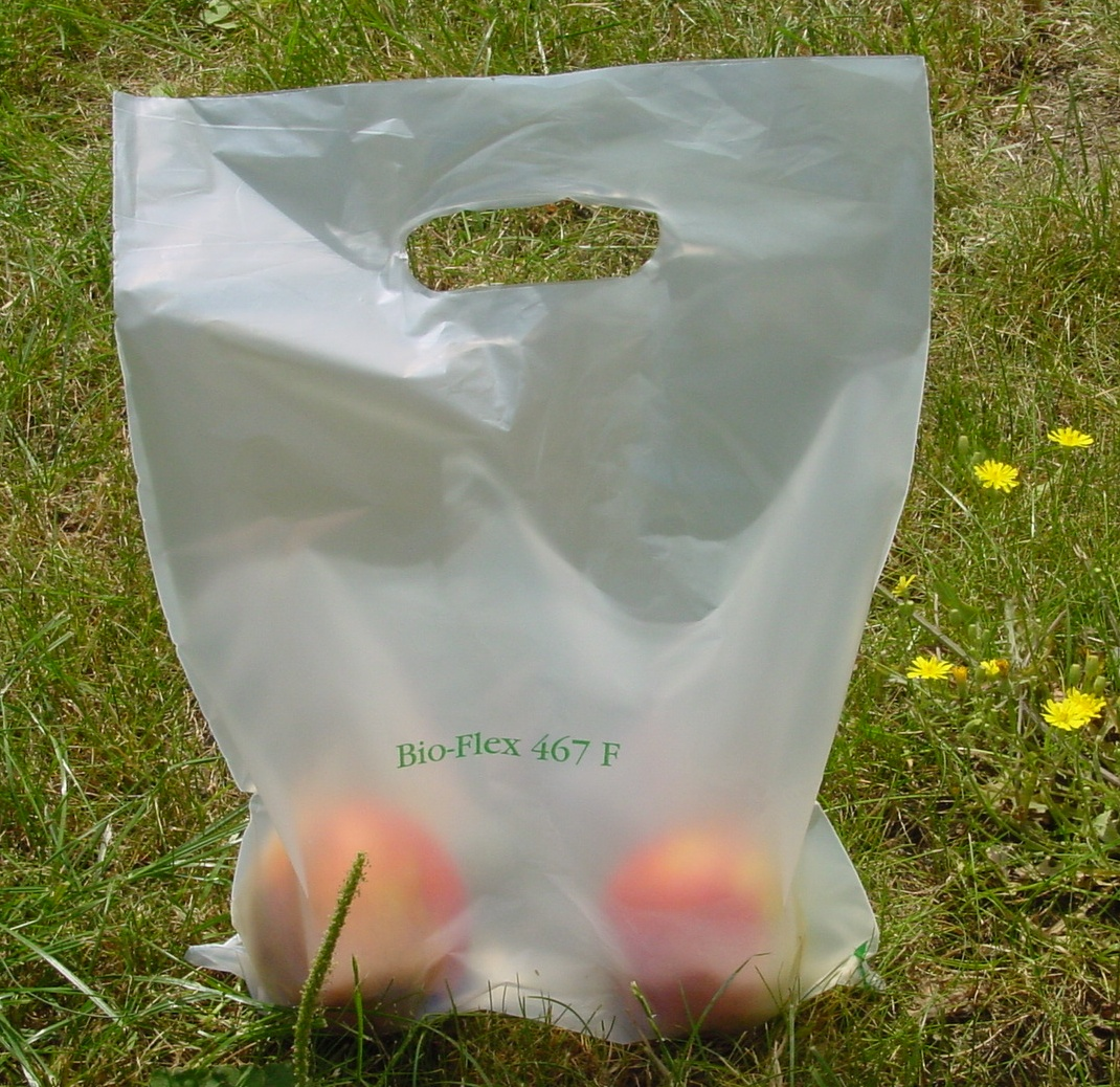 Shoping_Bag_made_of_PLA-Blend_Bio-Flex